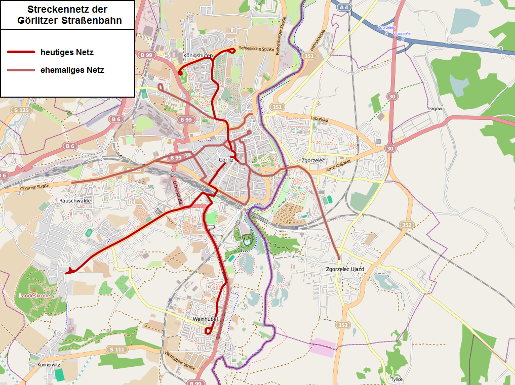 This map may be incomplete, and may contain errors. Don't rely solely on it for navigation.